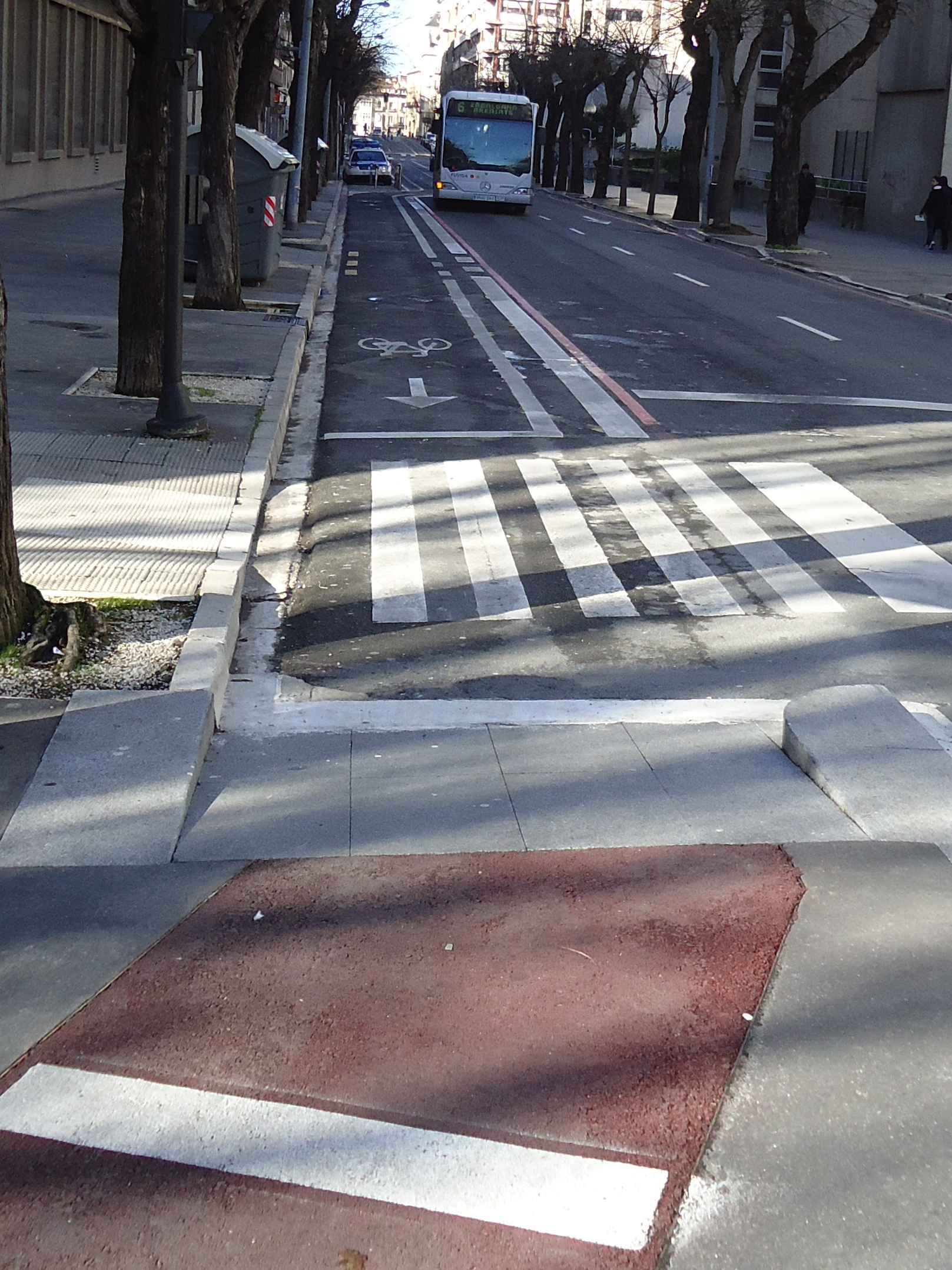 Cycle lane in Vitoria-Gasteiz (Basque Country, Spain)